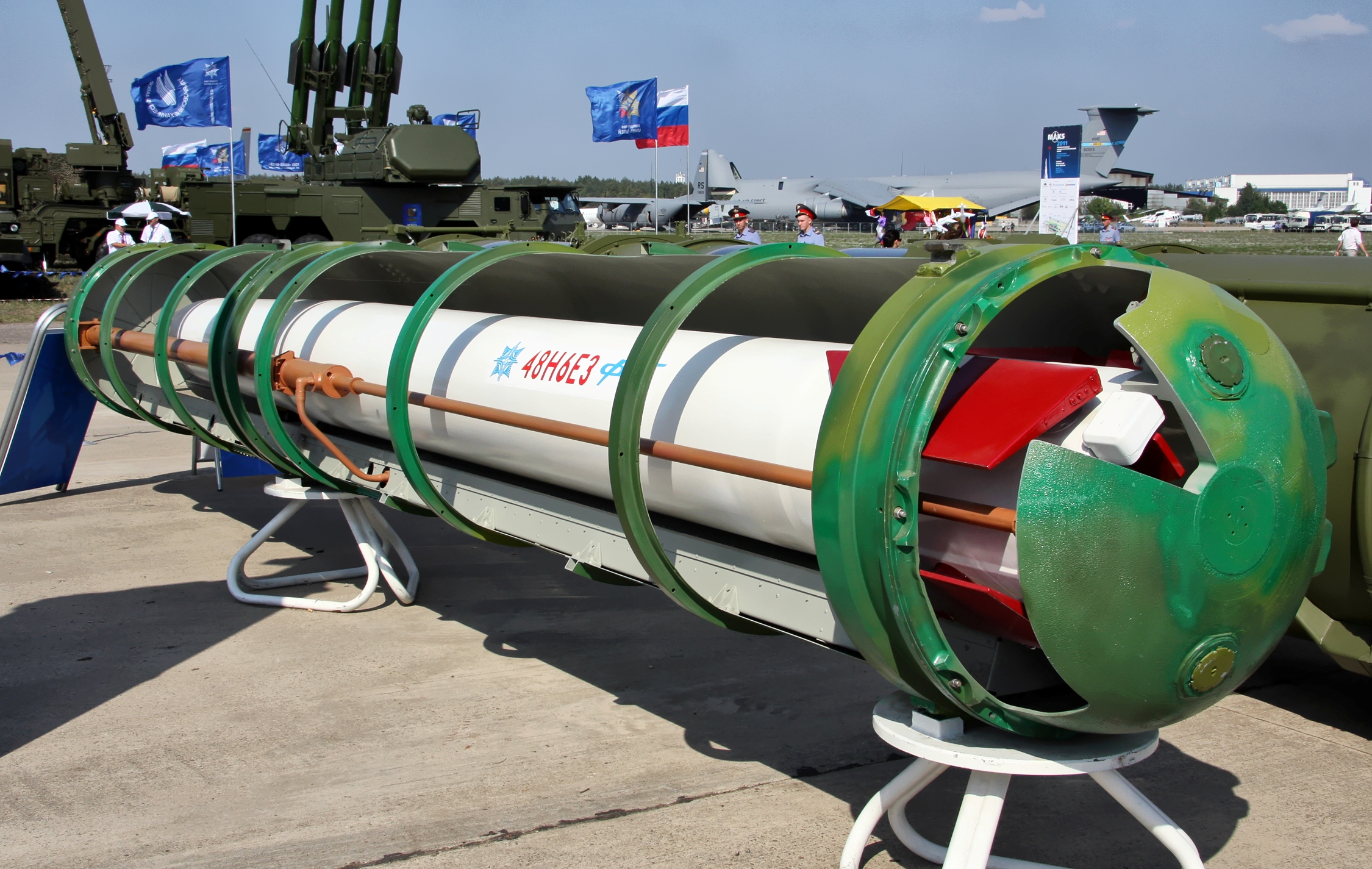 Surface-to-air missiles at the MAKS airshow 2011 near Moscow, Russia.